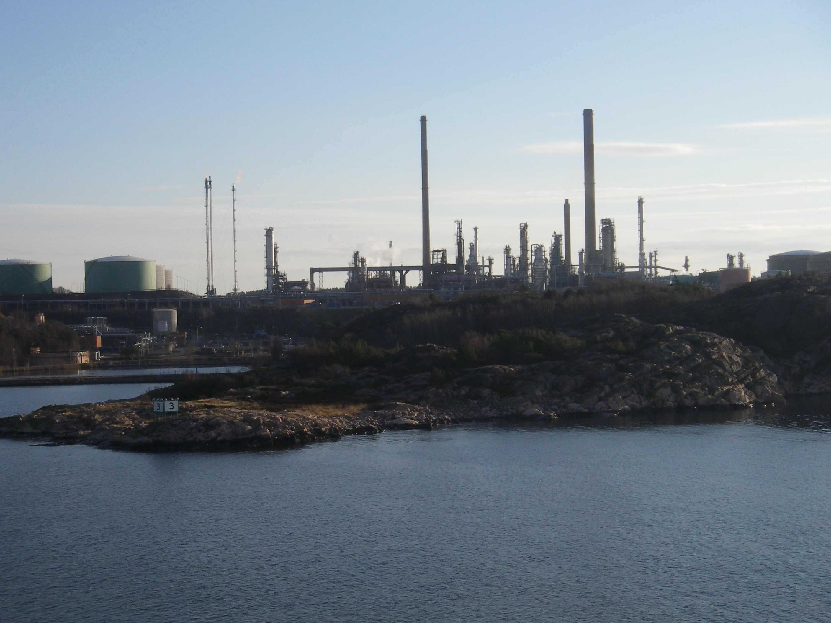 Preemraff Lysekil's processing plant